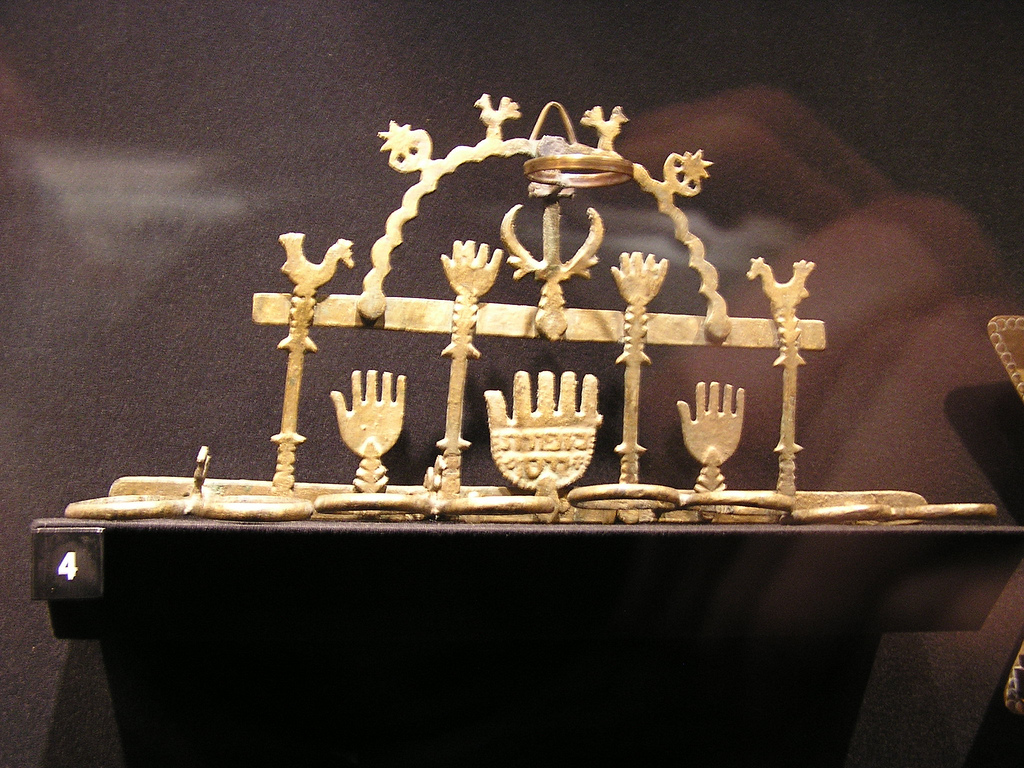 Hanukkah Lamp 19th c Brass 8 3/4 x 17 1/2 in. (22.2 x 44.5 cm) The Jewish Museum, New York F 2919 Wikipedia Loves Art at the Jewish Museum (New York City) This photo of item # F-2919 at the Jewish Museum (New York City) was contributed under the team name "team_coi" as part of the Wikipedia Loves Art project in February 2009. Jewish Museum (New York City) The original photograph on Flickr was taken by Pharos1—please add a comment to the original Flickr page whenever a use has been made on Wikipedia or another project. Project galleries on Flickr: this institution, this team